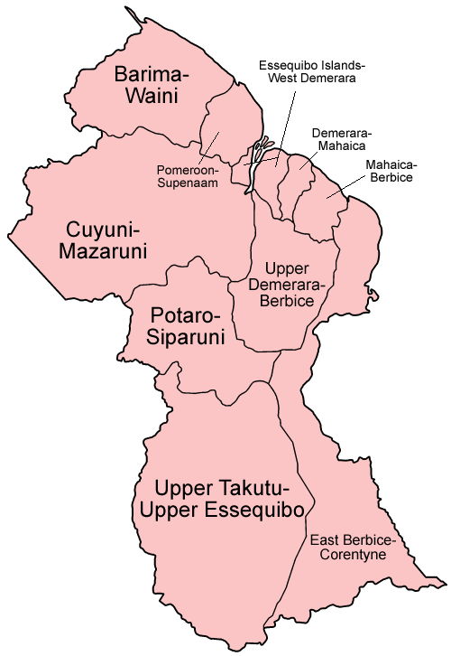 Map of the regions of Guyana in English (local language). Made by User:Golbez.